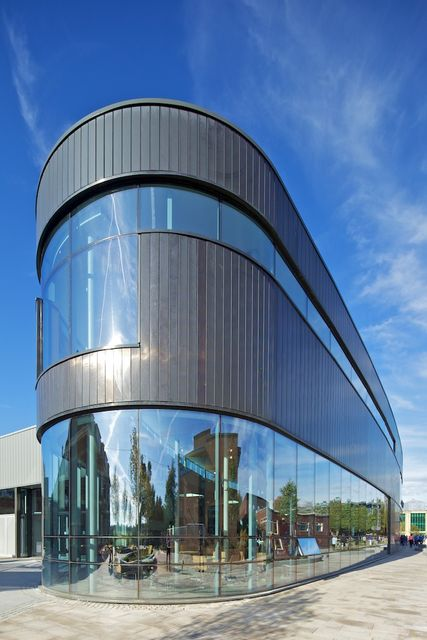 This £13.5m building opened in 2011 a central student provision, containing retail and catering outlets and IT facilities, as well as providing new accommodation for the Edge Hill Students’ Union.